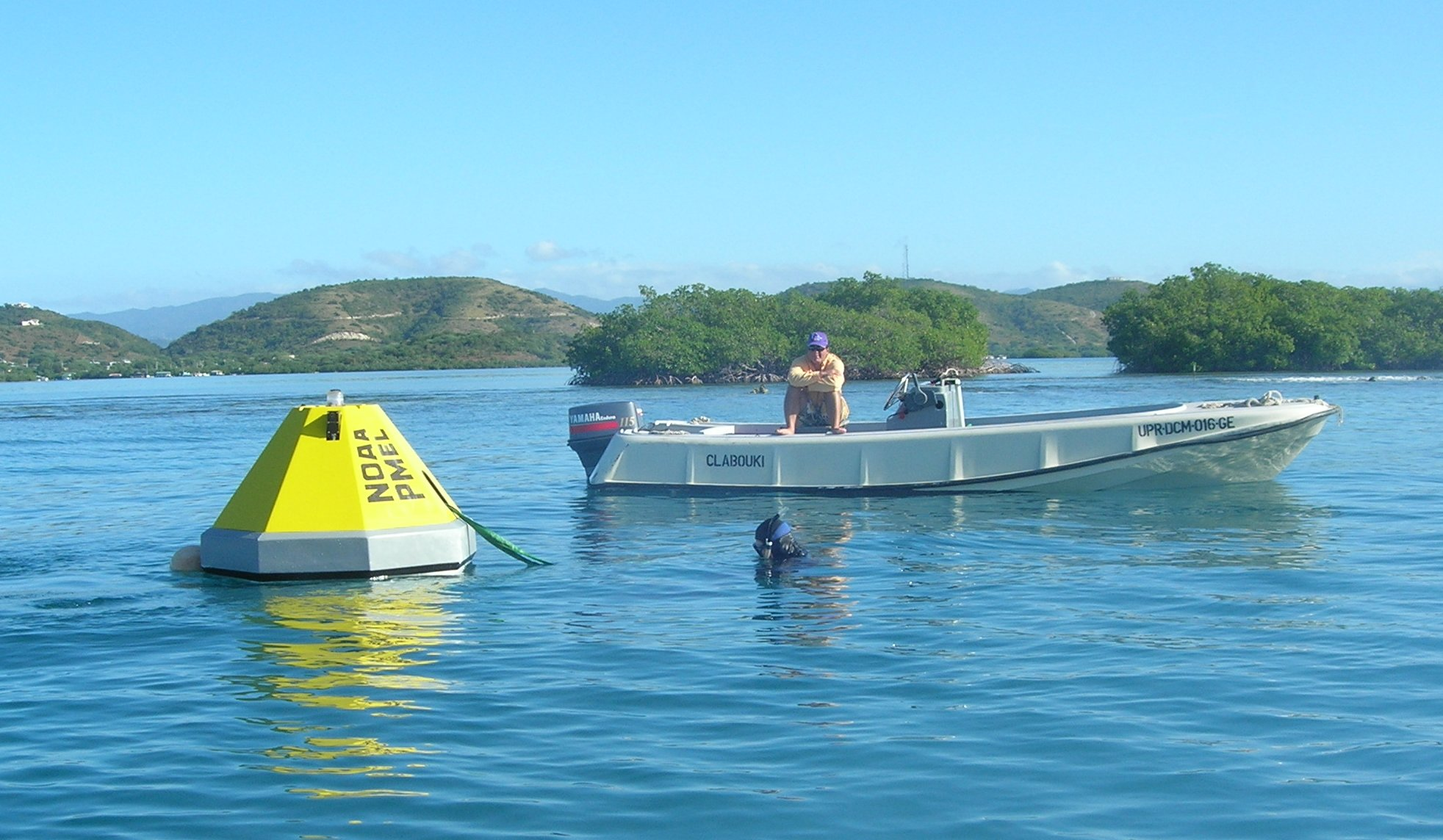 Moored Autonomous pCO2 (MAP-CO2) Buoy for ocean acidification research. Buoy engineered and deployed by the U.S. National Oceanic and Atmospheric Administration.